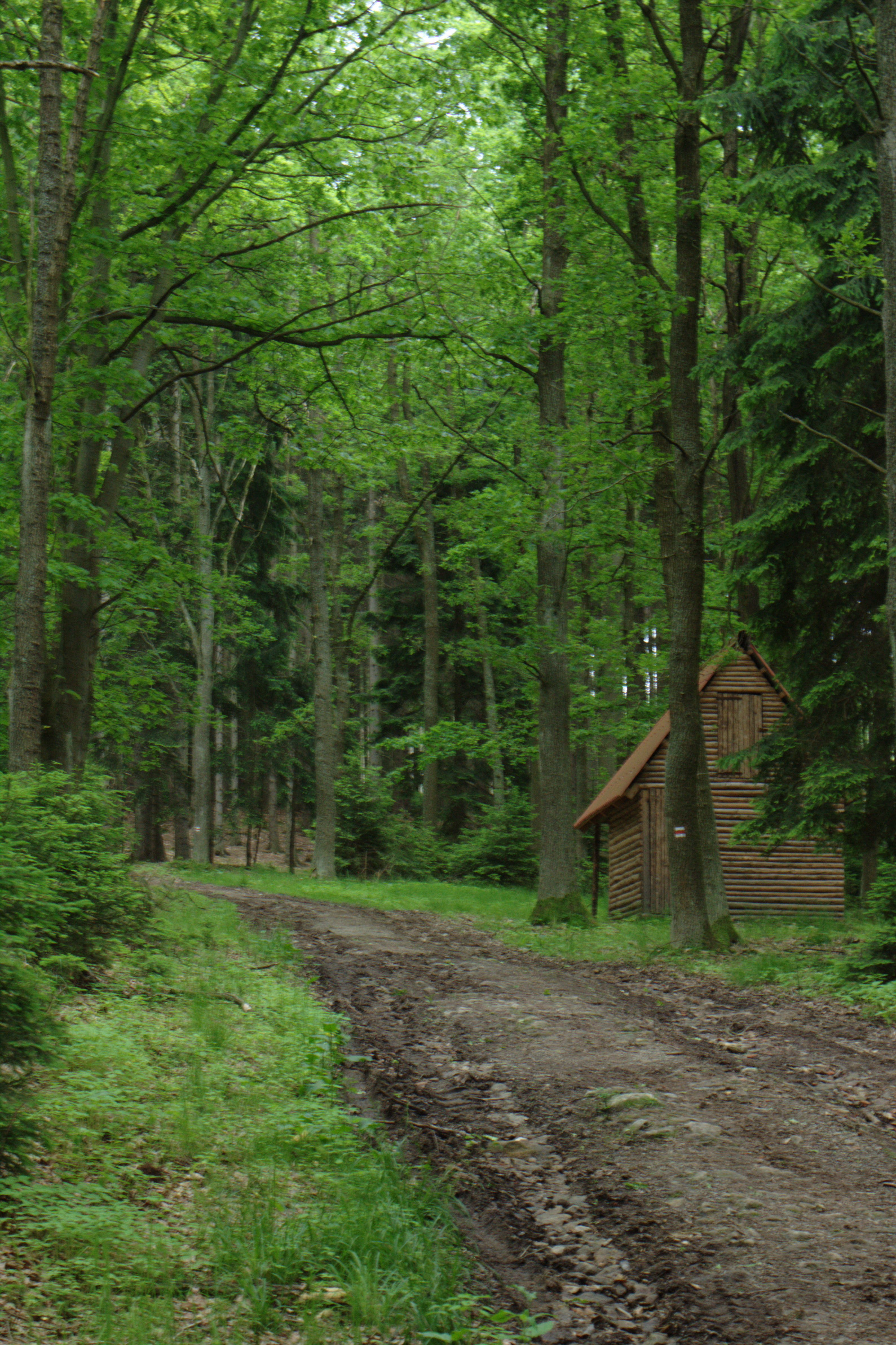 Žebrák Hill near the town of Líšno, Central Bohemian Region, CZ